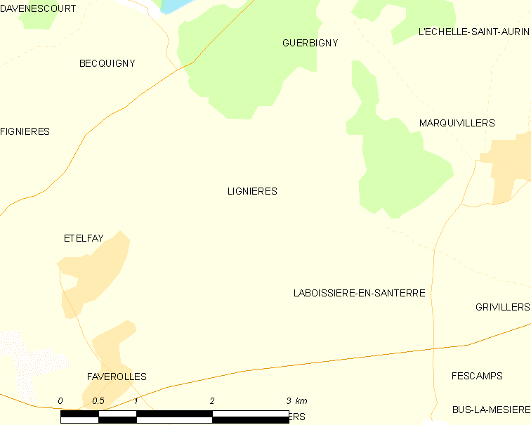 Map of French municipality Lignières